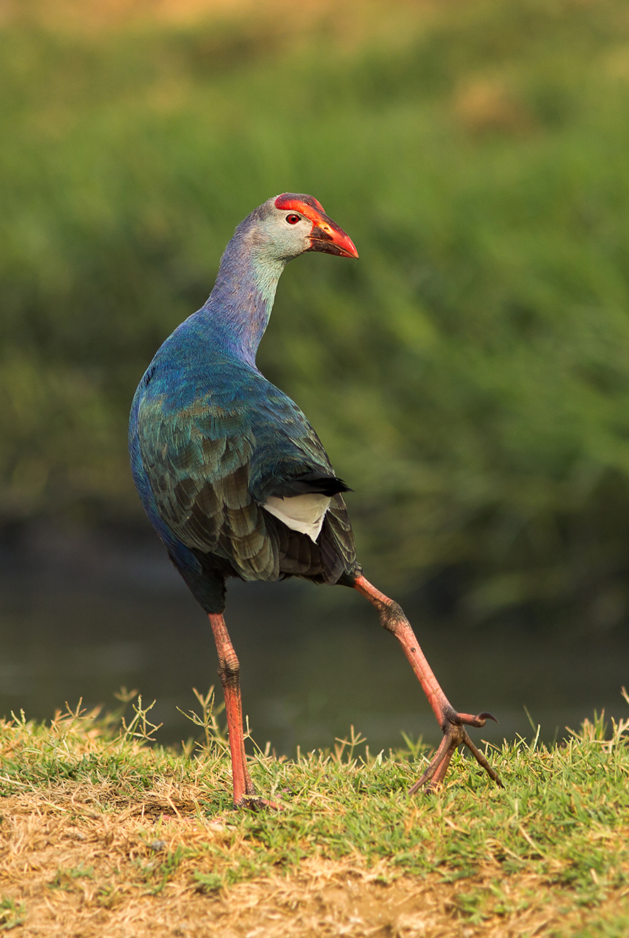 Grey-headed swamphen @ Basai